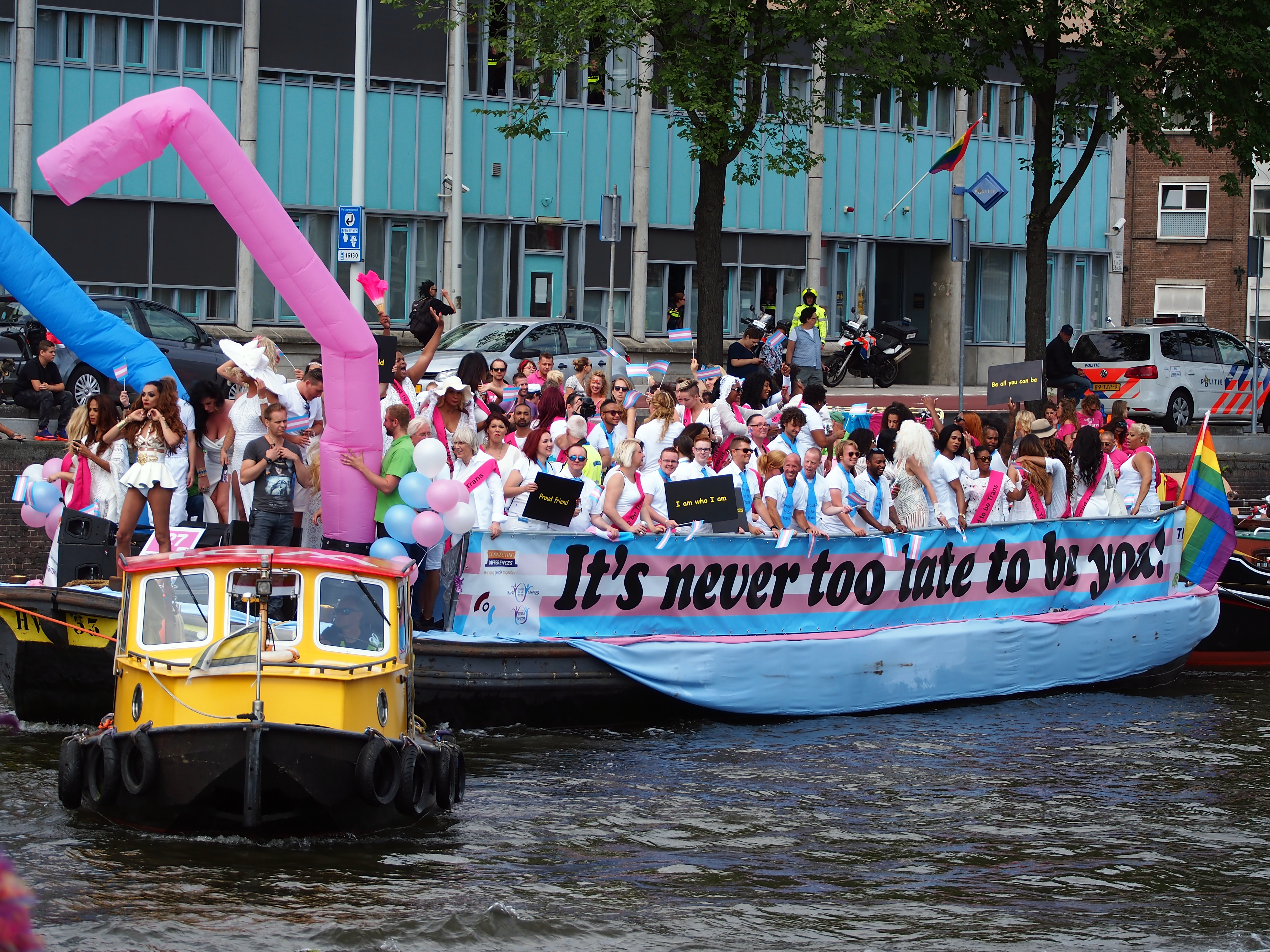 Photographed at Amsterdam.